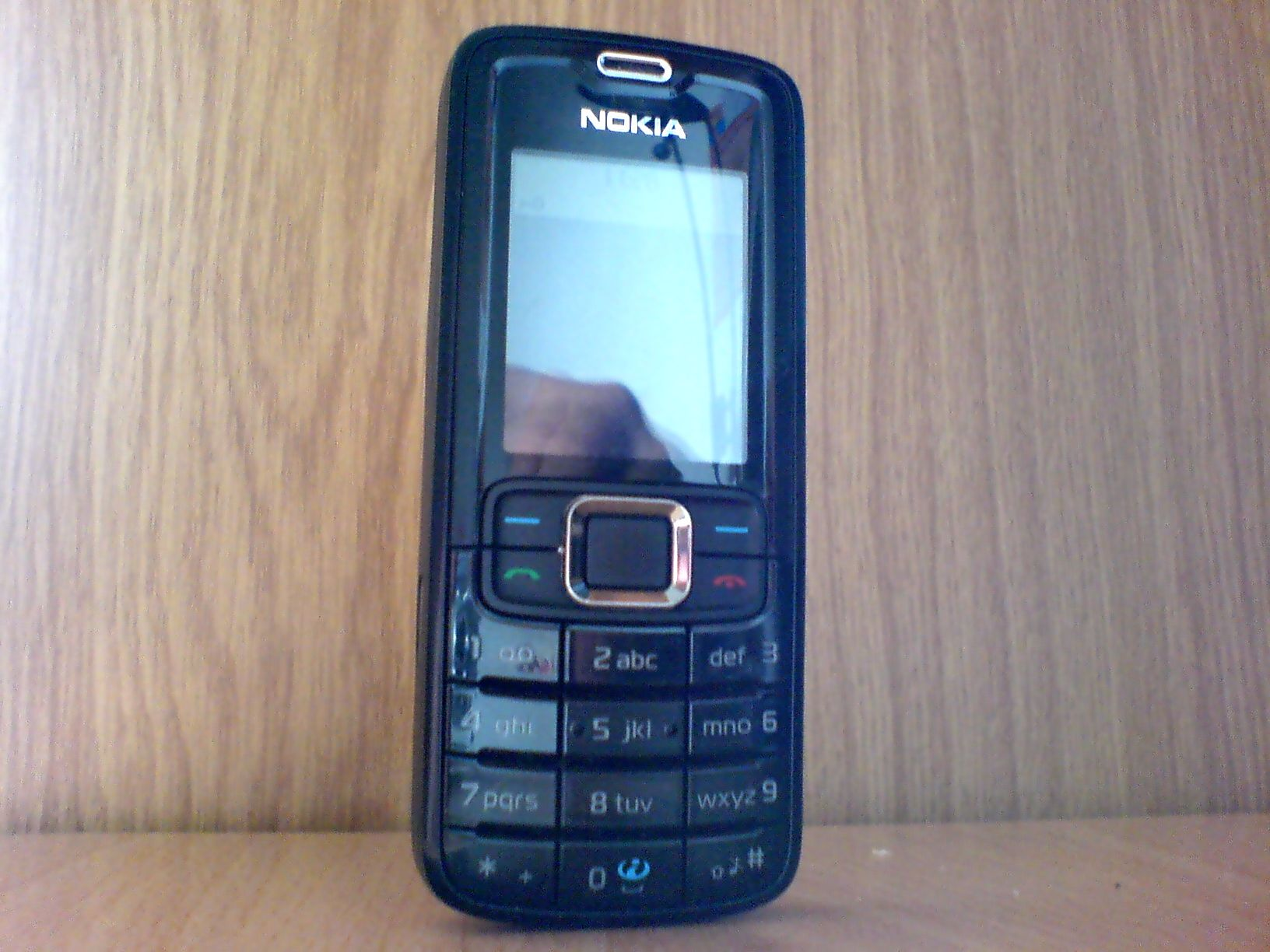 A Nokia 3110 classic